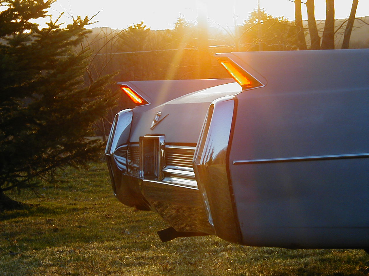 The rays of the setting sun backlight the tailfins of this 1964 Cadillac. Photo taken in Itaska/Castle Creek, Broome County, New York, United States, in the vicinity of Adams Street Cemetery, which is near U.S. Route 11 about 5 miles south-southeast of Whitney Point.64 Cadillac fins!